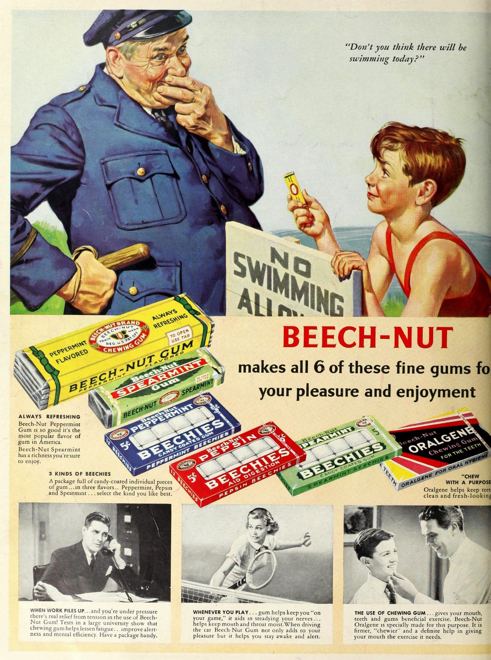 Beech-Nut 6 fine gums, 1938